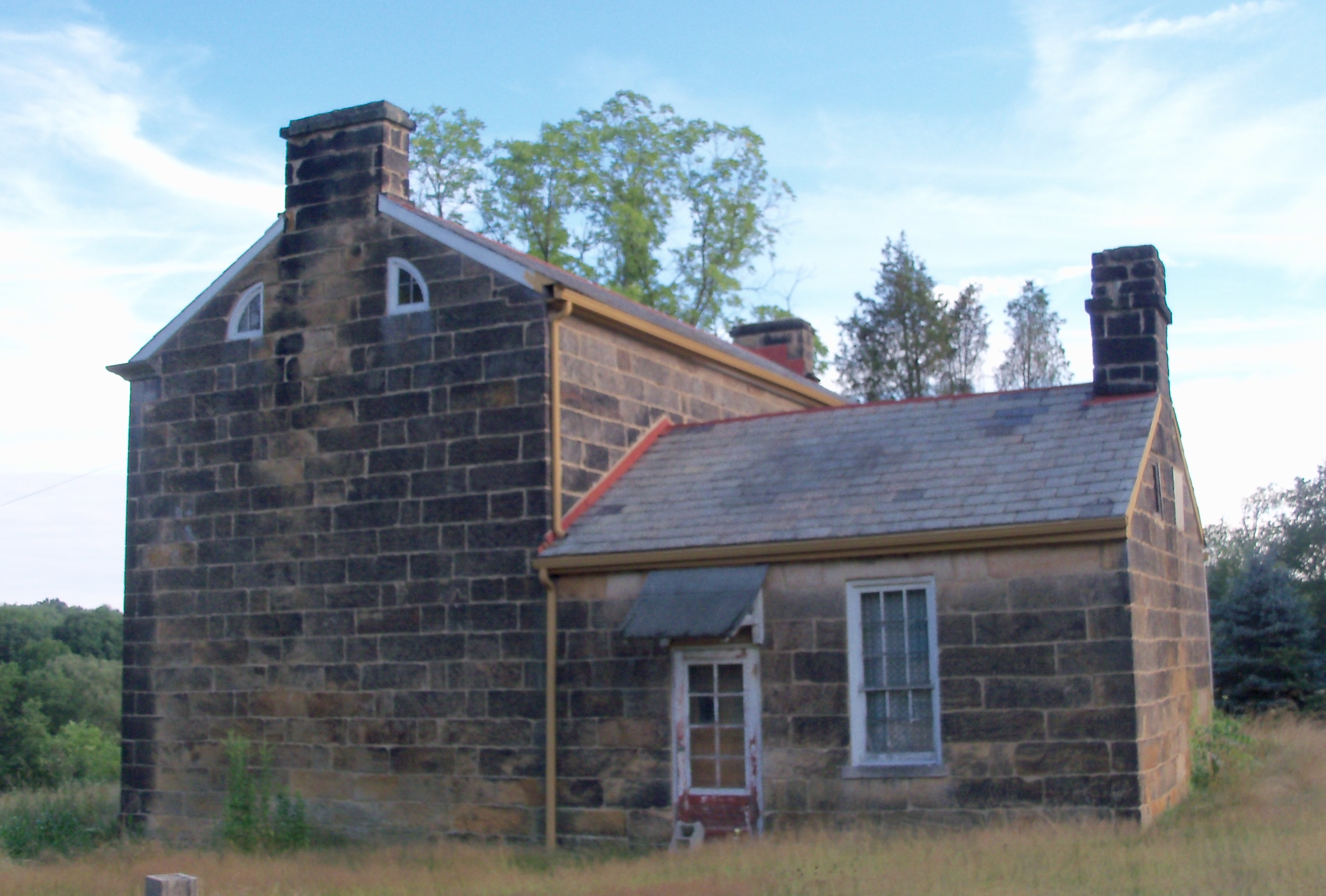 Daniel McBean Farmstead, a site on the National Register of Historic Places in Columbiana County, Ohio.